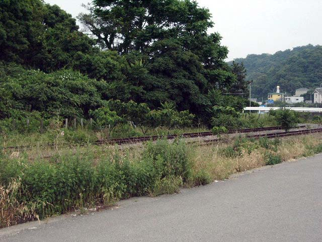 This photo is Japanese private railway Nankai Wakayamako Line, the southside terminal Suiken station. This station was abandoned May 2002. The platform was removed, various grasses and low woods are living in the ruin.